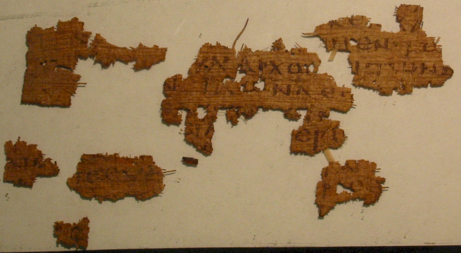 page recto with text of Matthew 12:24-26